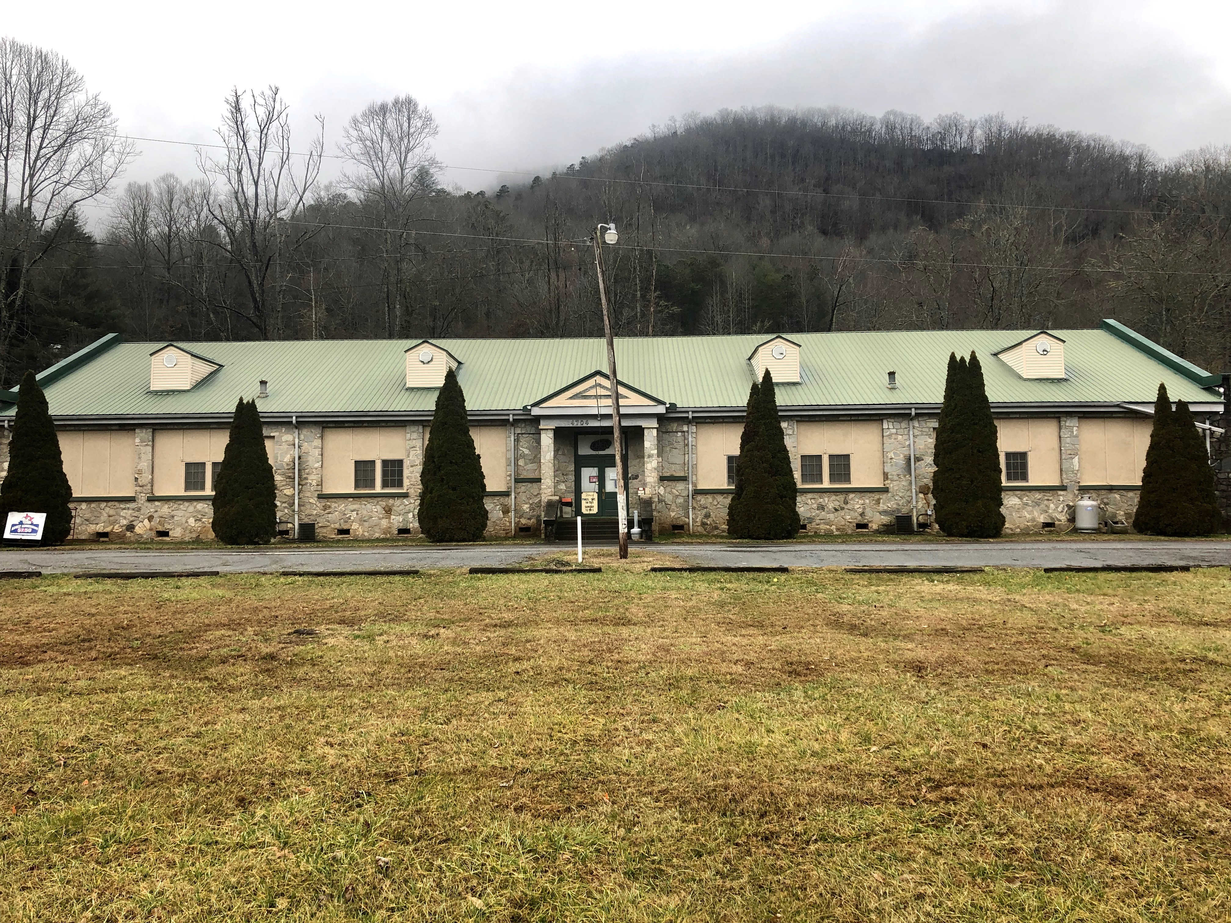 This is the former Savannah Consolidated School, located at Savannah, North Carolina along US Highway 441 south of Dillsboro, North Carolina. The school was the result of consolidation of schools at East Fork, Gay, Greens Creek, View Point, and Zion Hill. The school was constructed circa 1940, likely with assistance from the New Deal-era Public Works Administration, whom also assisted in construction on the campus of nearby Western Carolina University in Cullowhee during the same time frame. The school was expanded in the mid-1950s with the addition of a classroom wing on the south side of the original building due to an increase in enrollment. However, a subsequent decrease in enrollment in the 1960s and 1970s led to the school's closure and consolidation with Sylva Elementary School and Webster Elementary School in 1973, forming Fairview Elementary School. Since that time, the building has been home to various businesses, most recently an antique mall, with the American Museum of the House Cat taking up residence in the southern wing of the building in 2017.